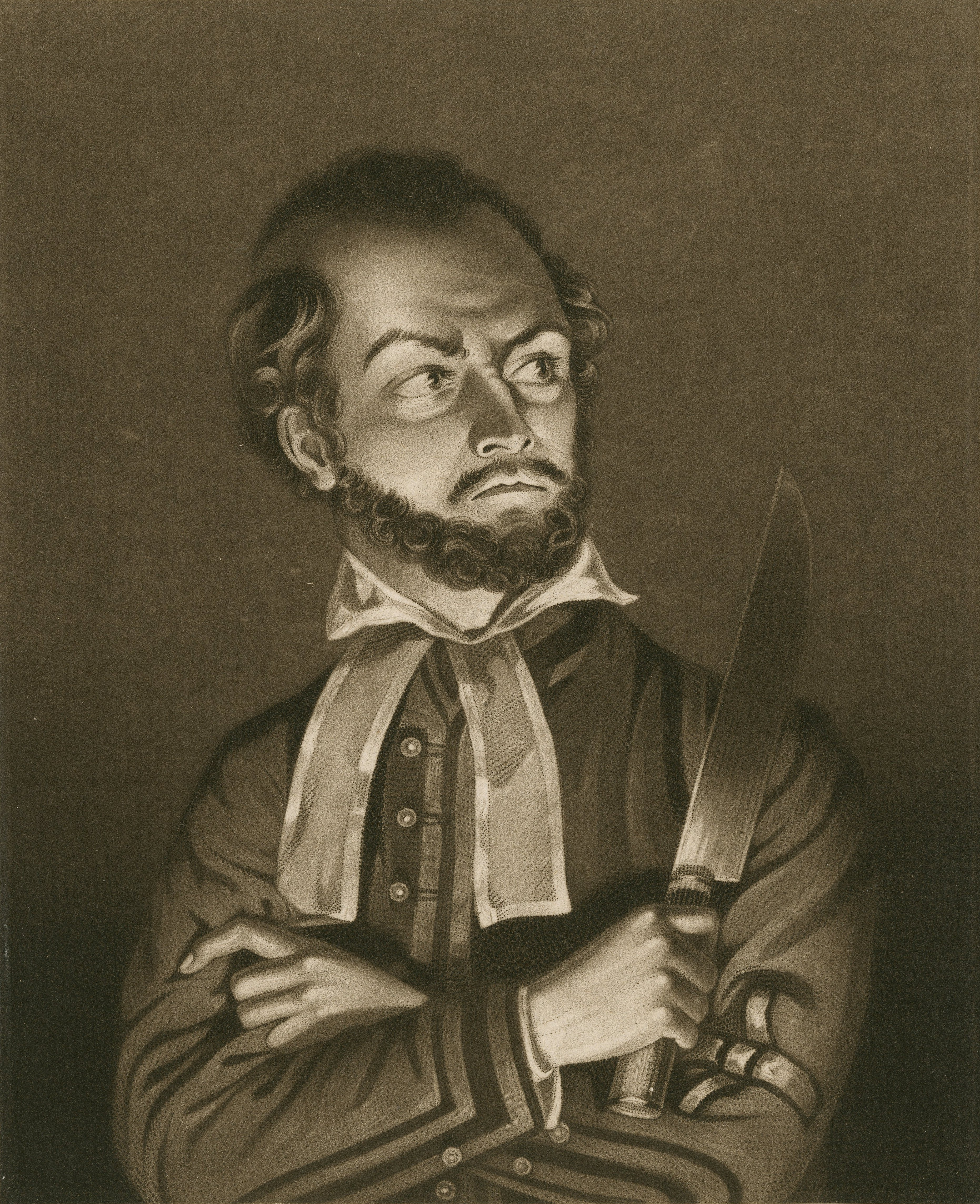 A print of Edmund Kean as Shylock in a late 19th century performance of Shakespeare's Merchant of Venice.